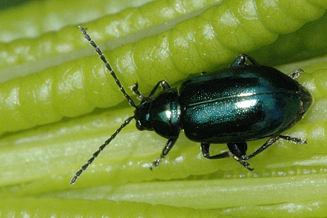 Picture taken in Commanster, Belgian High Ardennes . Species: Altica oleracea male